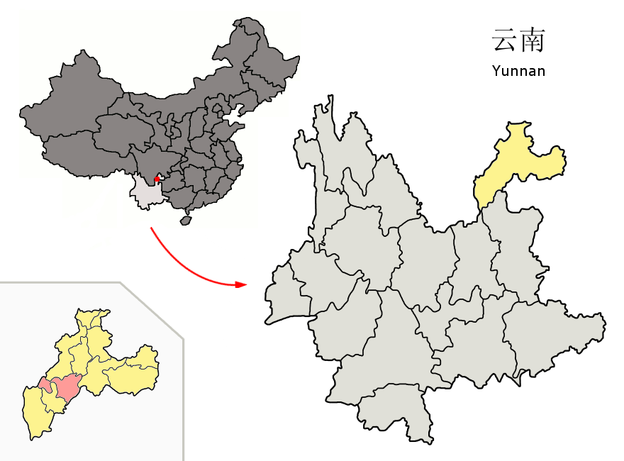 Location of Zhaoyang District (pink) and Zhaotong Prefecture (yellow) within Yunnan province of China Map drawn in september 2007 using various sources, mainly : Yunnan province administrative regions GIS data: 1:1M, County level, 1990 Yunnan Counties map from Zhaotong Prefecture administrative map from .au